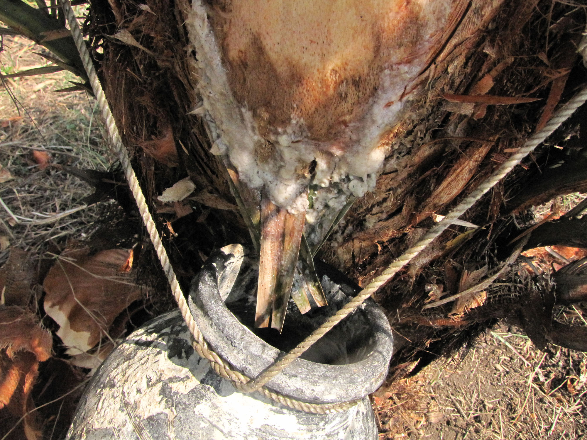 a pot tied to the Phoenix sylvestris tree for collecting sweet sap